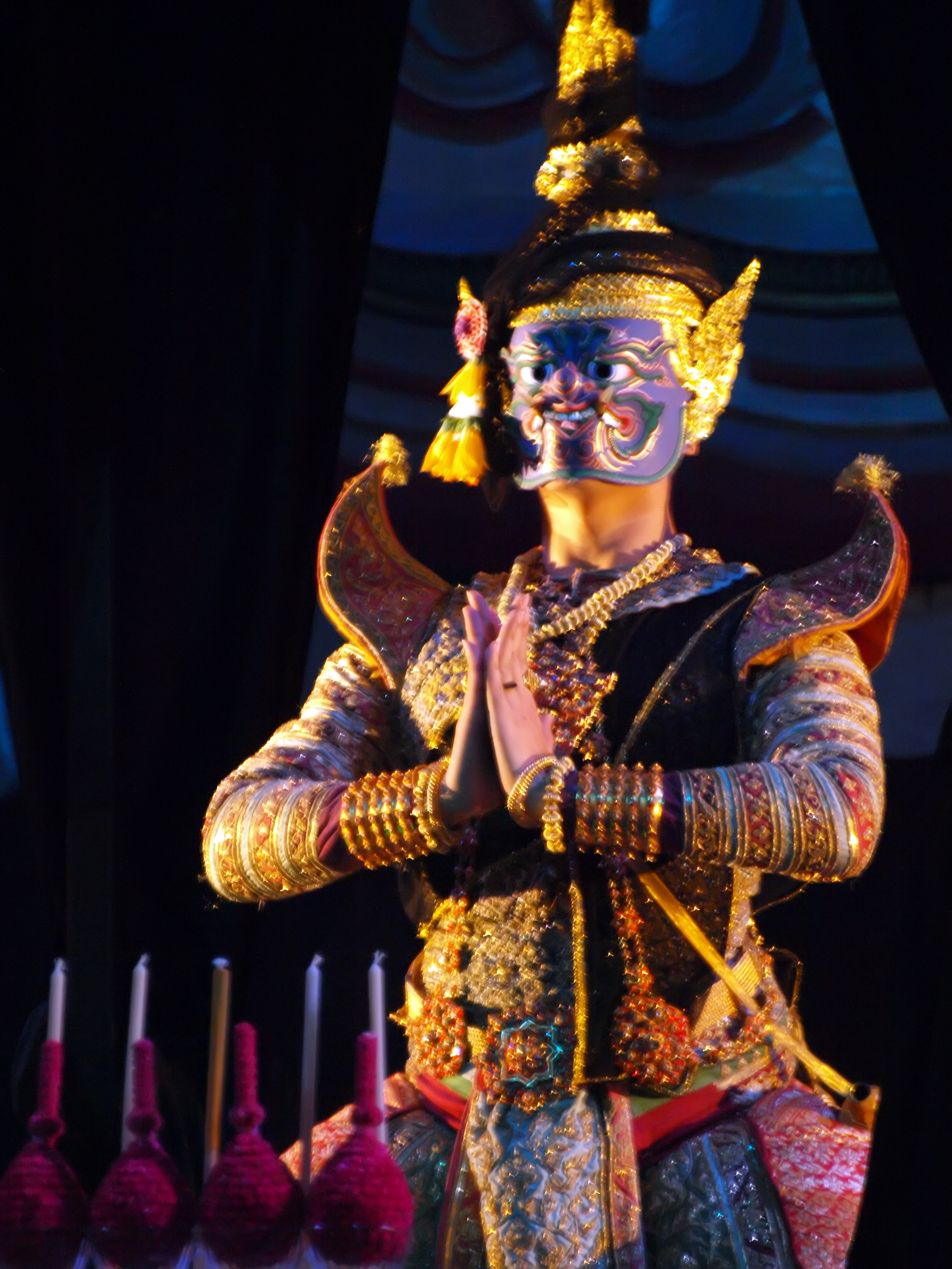 Actor Maiyarap Celebrate form The Masked Play "The Battle of Maiyarap" 15th-31st July 2011, Main Hall, Thailand Cultural Center